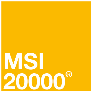 MSI 20000 Logo